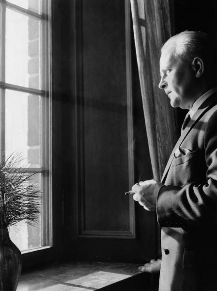 Photograph of the Finnish economist Eino Nevalainen (1904–1963). Photographed in Vanajanlinna, Hämeenlinna.